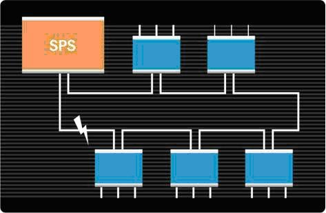 Ring redundancy at Ethernet POWERLINK